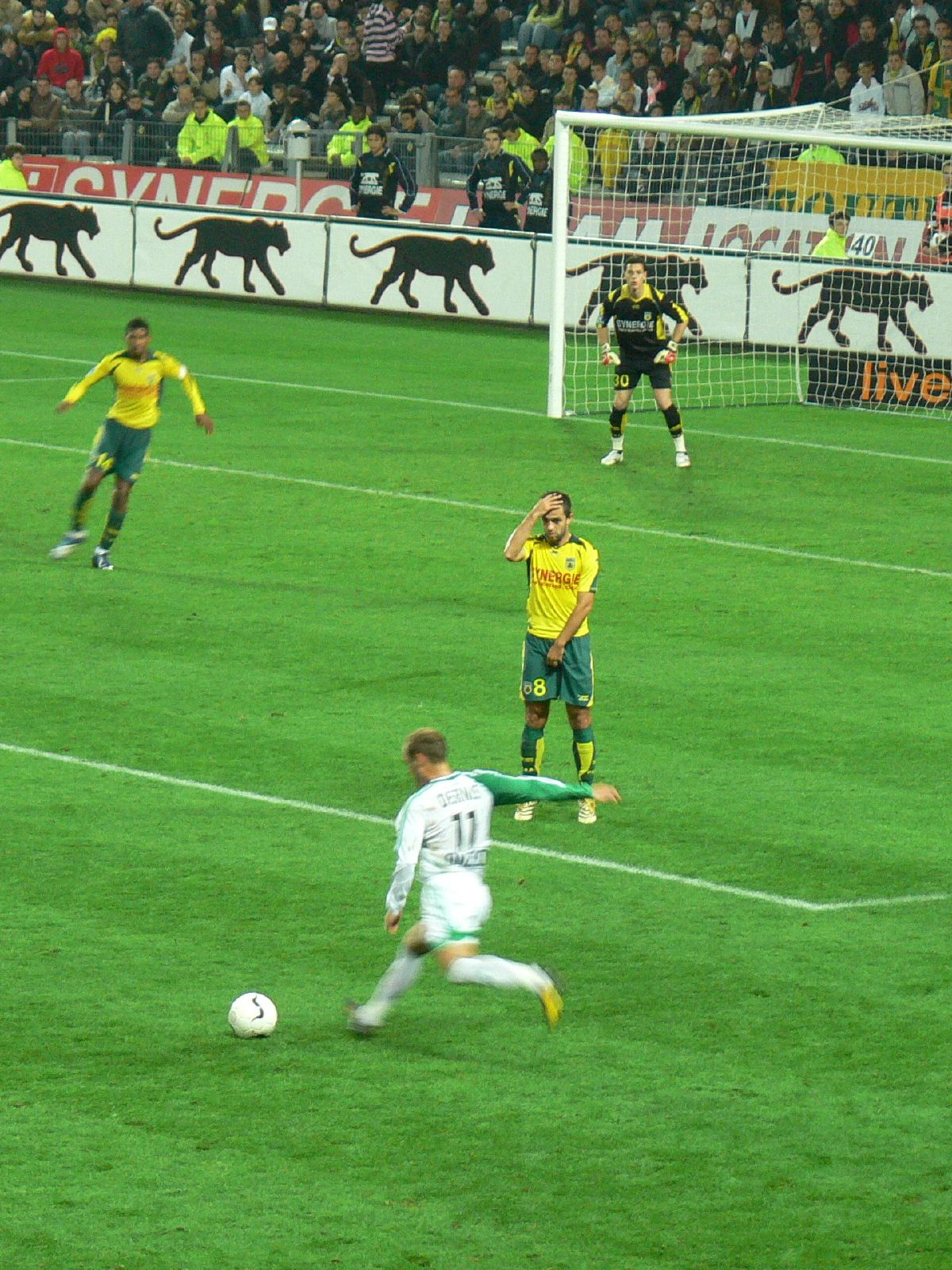 Photo of Geoffrey Dernis taking a free kick